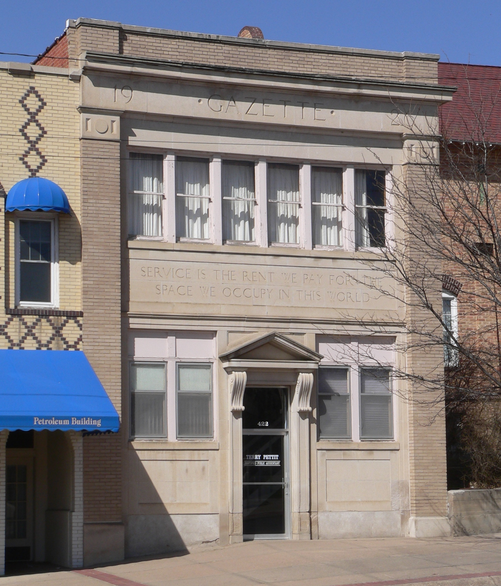 Former McCook Daily Gazette building at 422 N. Norris in McCook, Nebraska. The building was constructed in 1926. Below the second-floor windows is inscribed the newspaper's motto, "Service is the rent we pay for the space we occupy in this world."